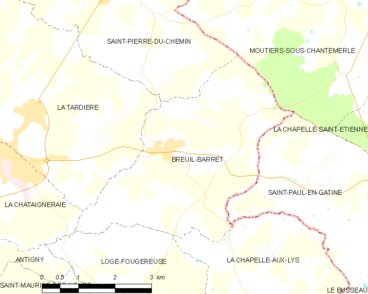 Map of French municipality Breuil-Barret